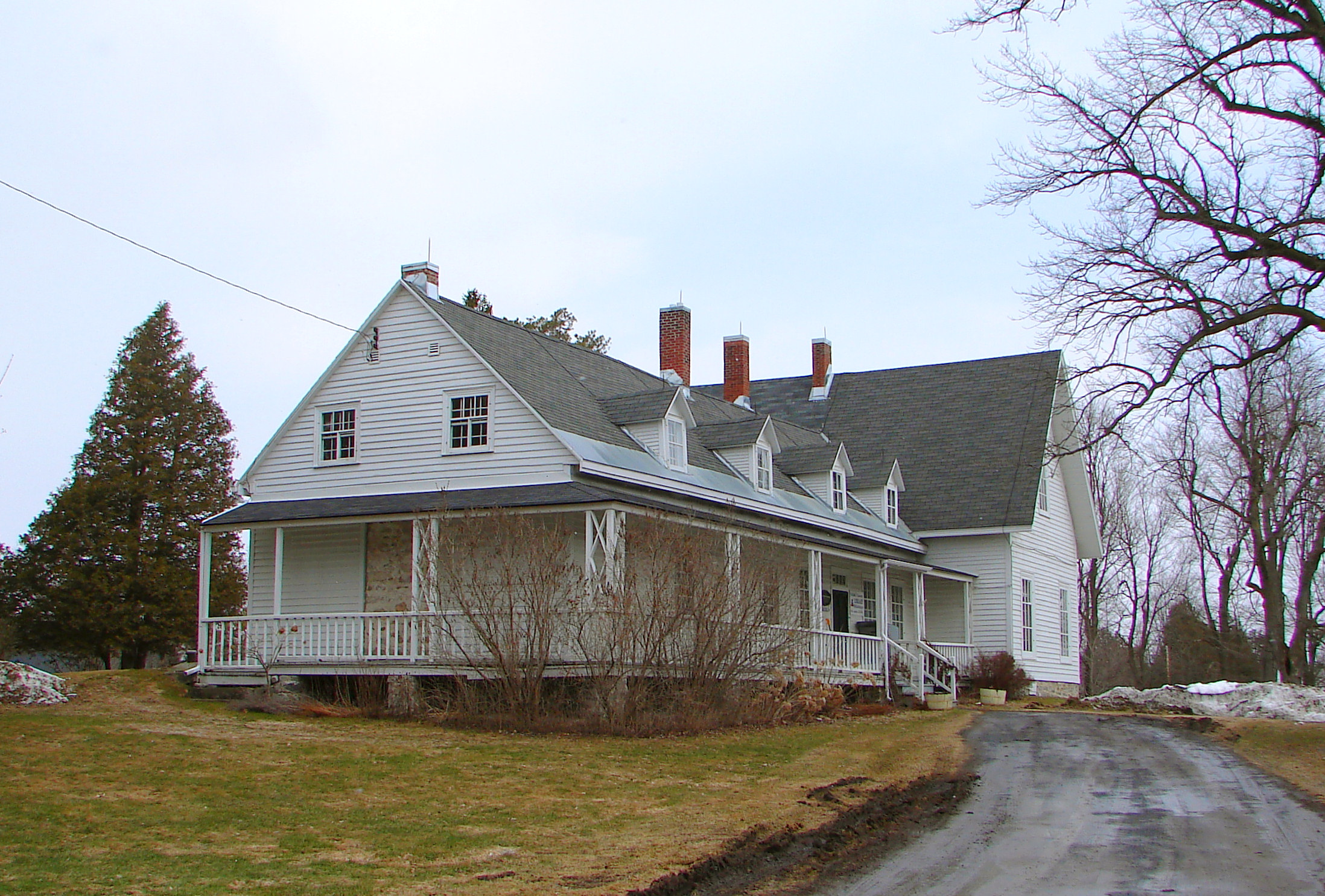 Sir John Johnson's Manor House, a historical site in Williamstown, Ontario, Canada